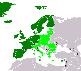 dark green - members; light green - the rest of the EU